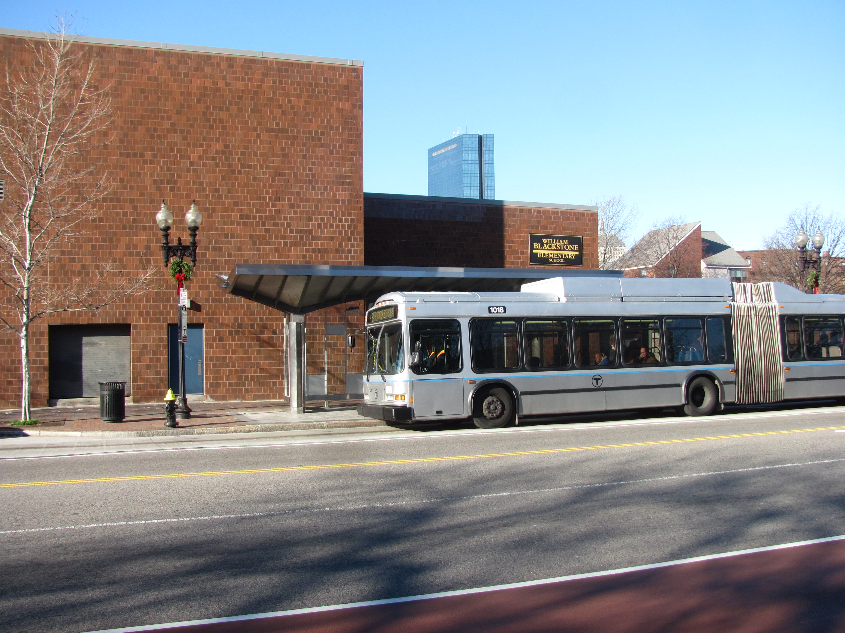 Union Park Street Outbound, Boston Massachusetts